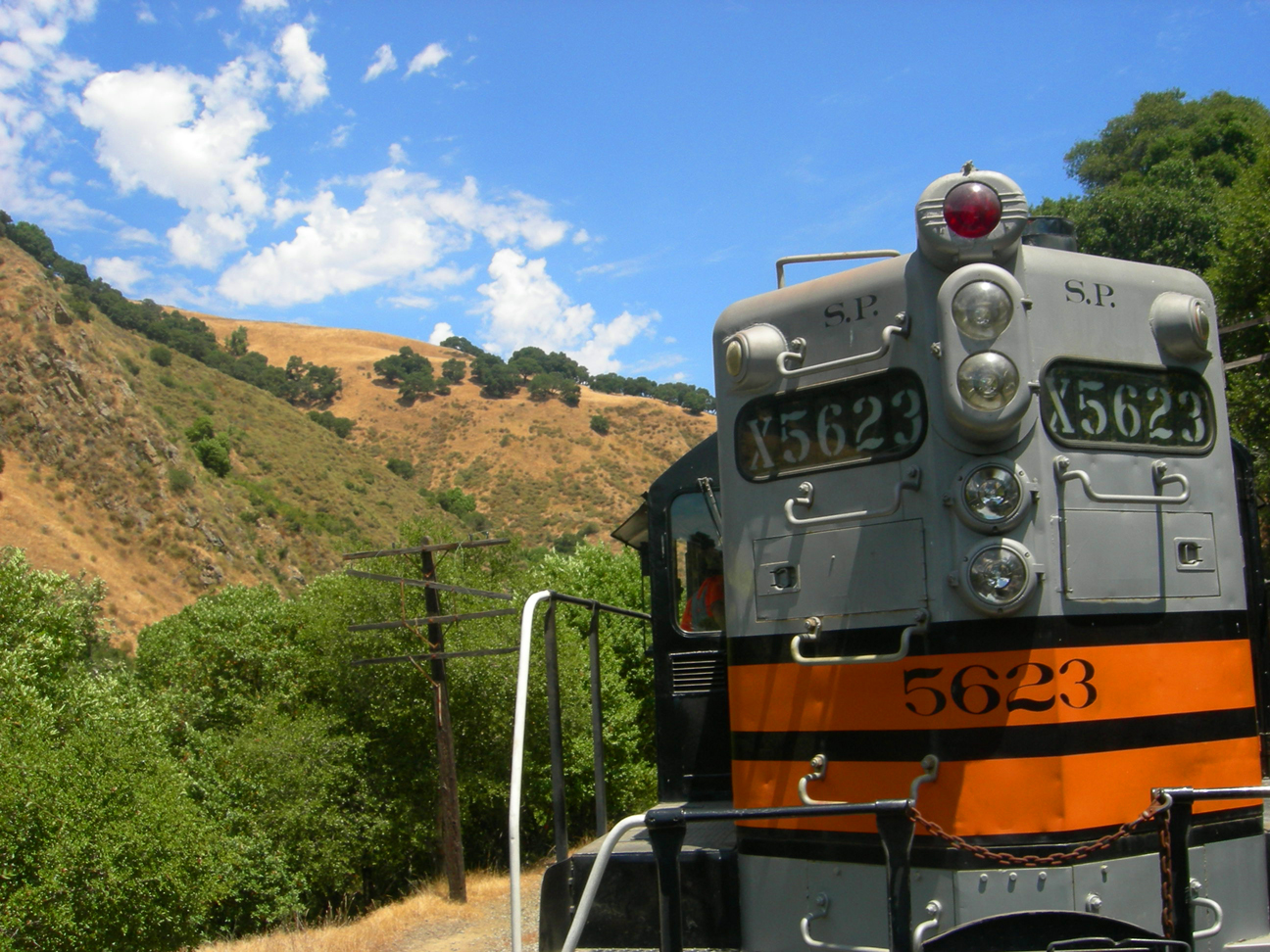 Southern Pacific #5623 General Motors Electro-Motive Division GP9 passenger service-equipped "torpedo boat" diesel electric locomotive (1955) operating on the Niles Cañon Railway, California